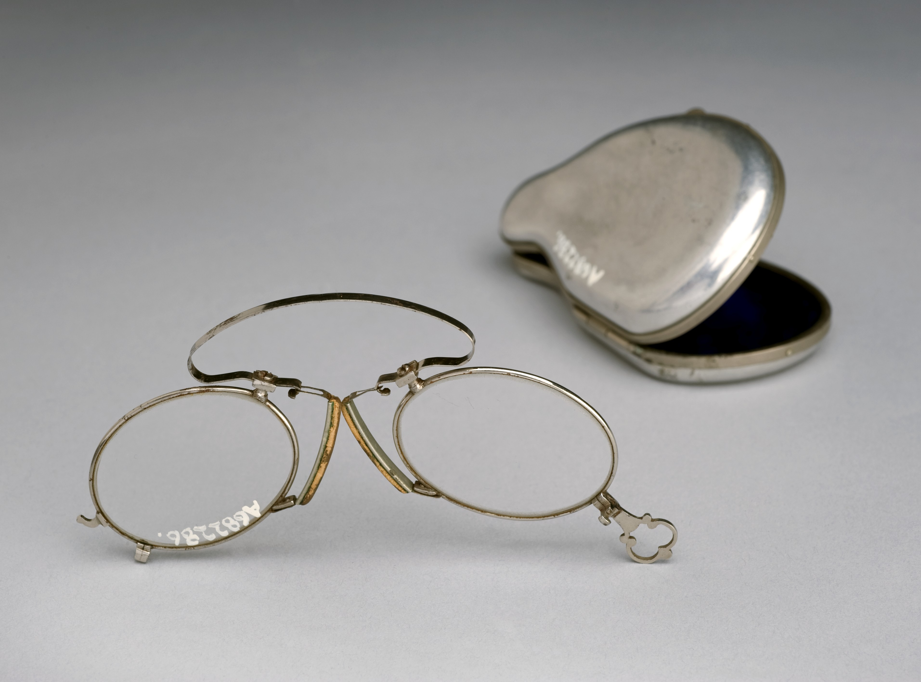 Pince-nez or nose-pinching spectacles reached their height in popularity in the late 1800s. They had been around in some form since the 1500s. This pair is typically designed with a C-shaped nose bridge. This example also has a padded leather bridge. The lenses fold at the nose bridge and are secured by a steel latch. Pince-nez spectacles required skill and practice to balance on the nose. These spectacles can be carried in a snap lid case once folded. maker: Unknown maker Place made: England, United Kingdom Wellcome Images Keywords: pince-nez; Optometry; spectacles; Ophthalmology